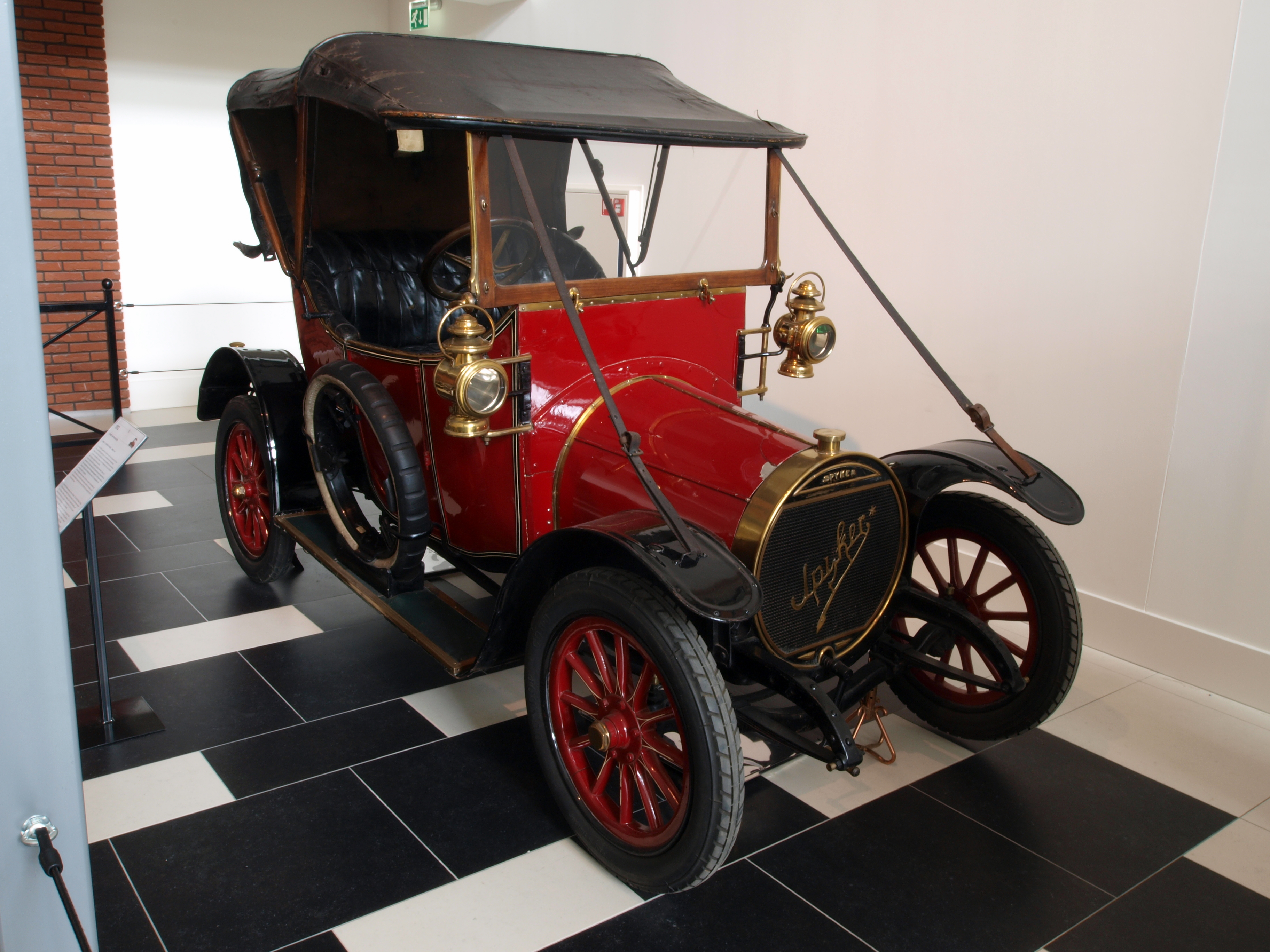 Photographed at the Louwman museum / Louwman Collection, The Netherlands.